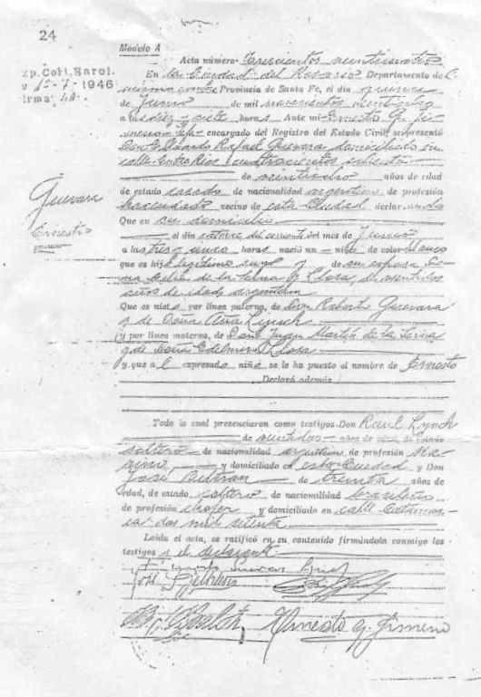 Birth certificate of Ernesto "Che" Guevara.